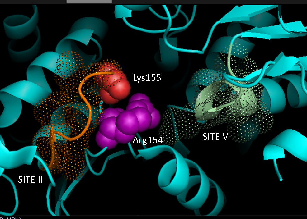 screen shot of PYMOL structure of human malic enzyme under identification PDB ID 2aw5